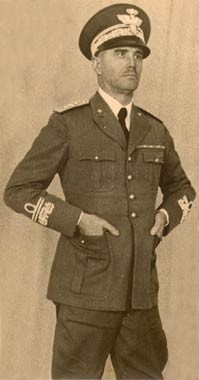 General Guglielmo Nasi around 1937, just before WWII